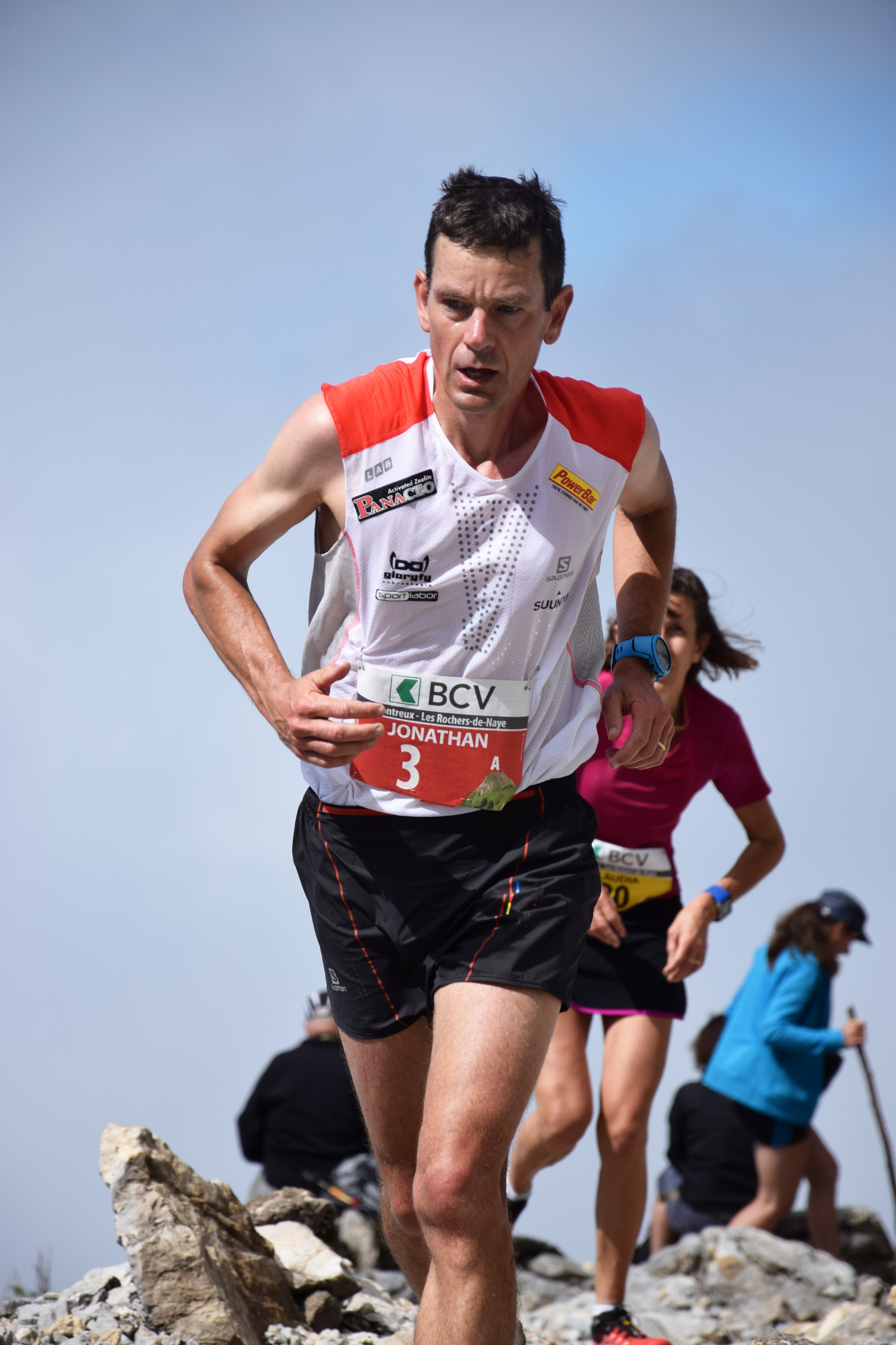 Jonathan Wyatt at 2016 Montreux-Les-Rochers-de-Naye mountain run